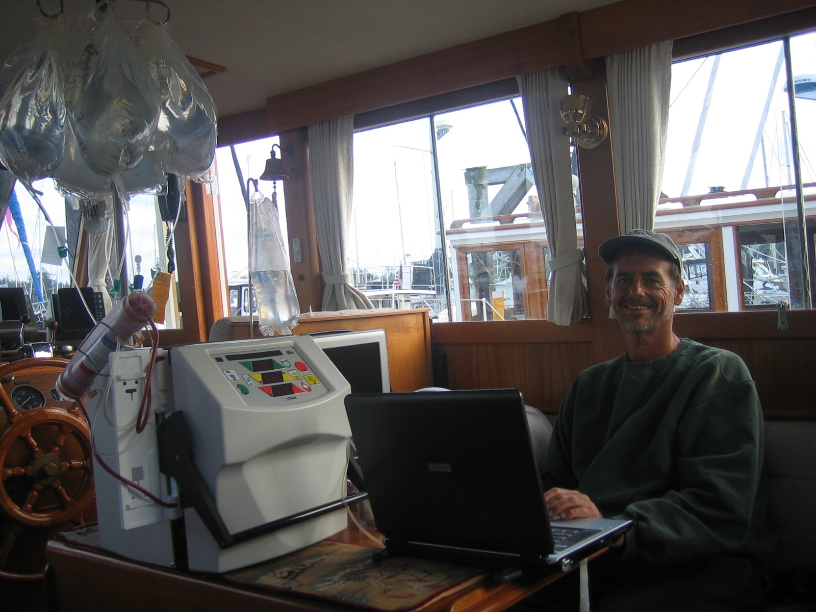 This photo shows a hemodialysis treatment in progress using a NxStage System One cycler. The treatment was done aboard a boat. This made possible because of the machine's use of bags of dialysate. This particular treatment used 25 litters of dialysate over the course of a 195 minute treatment.BillpSea 16:26, 27 September 2007 (UTC)